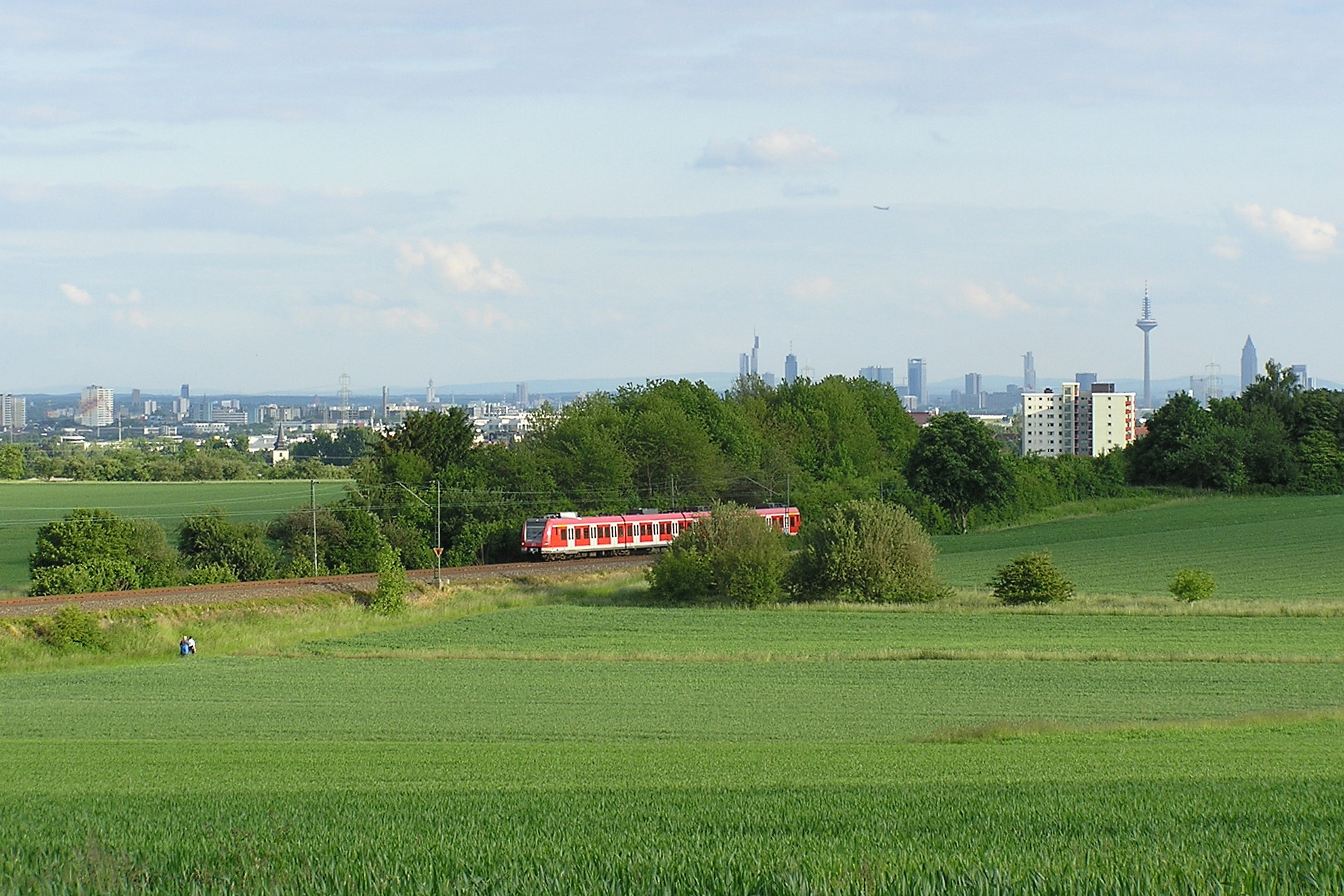 An ET 423 on the S5 from Bad Homburg to Friedrichsdorf-Seulberg. In the background Frankfurt.